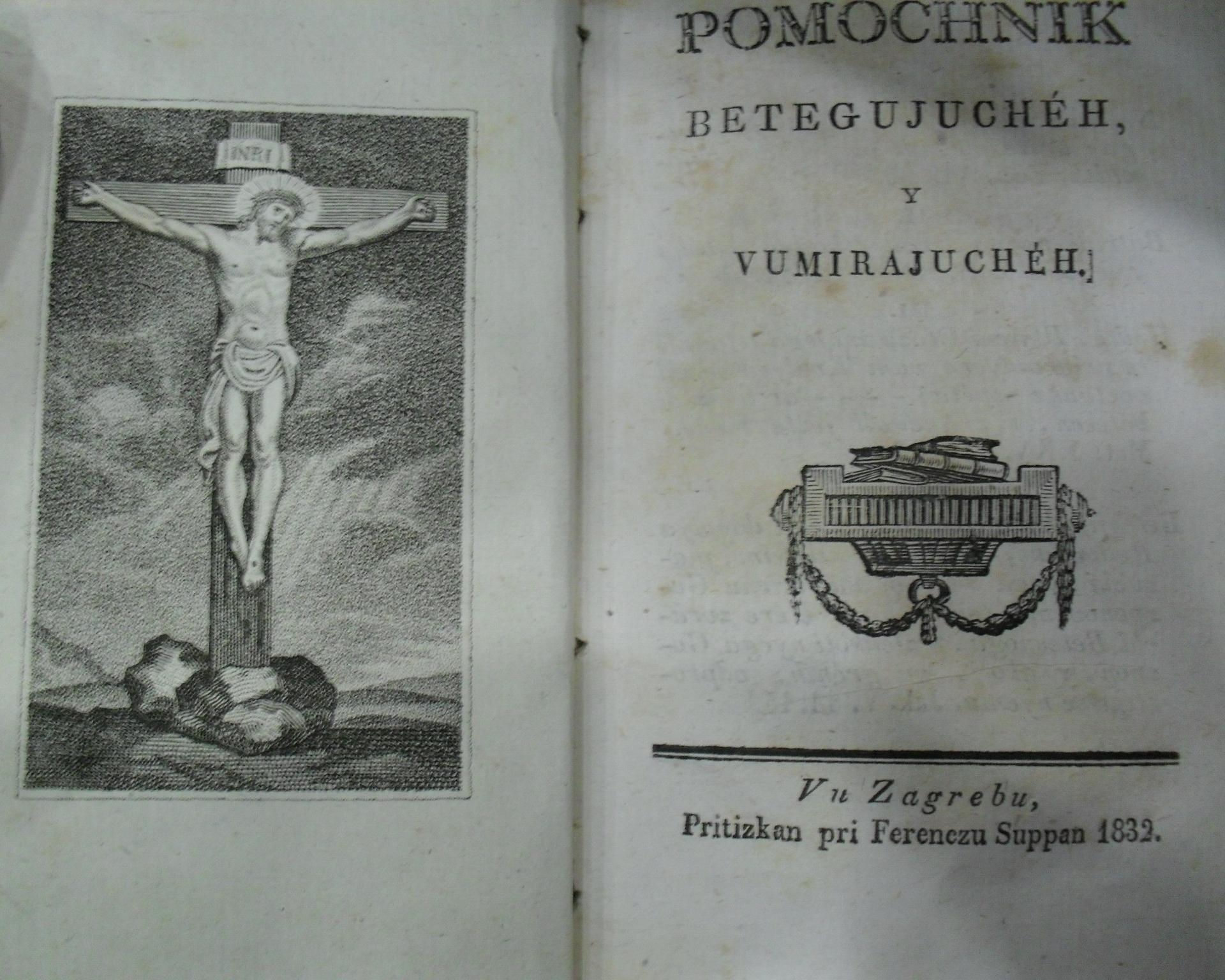 Ignac Kristijanović: Pomochnik betegujuchéh y vumirajouchéh (Help for the sick and dying people), Kajkavian Croatian (kajkavski) prayer-book from 1832